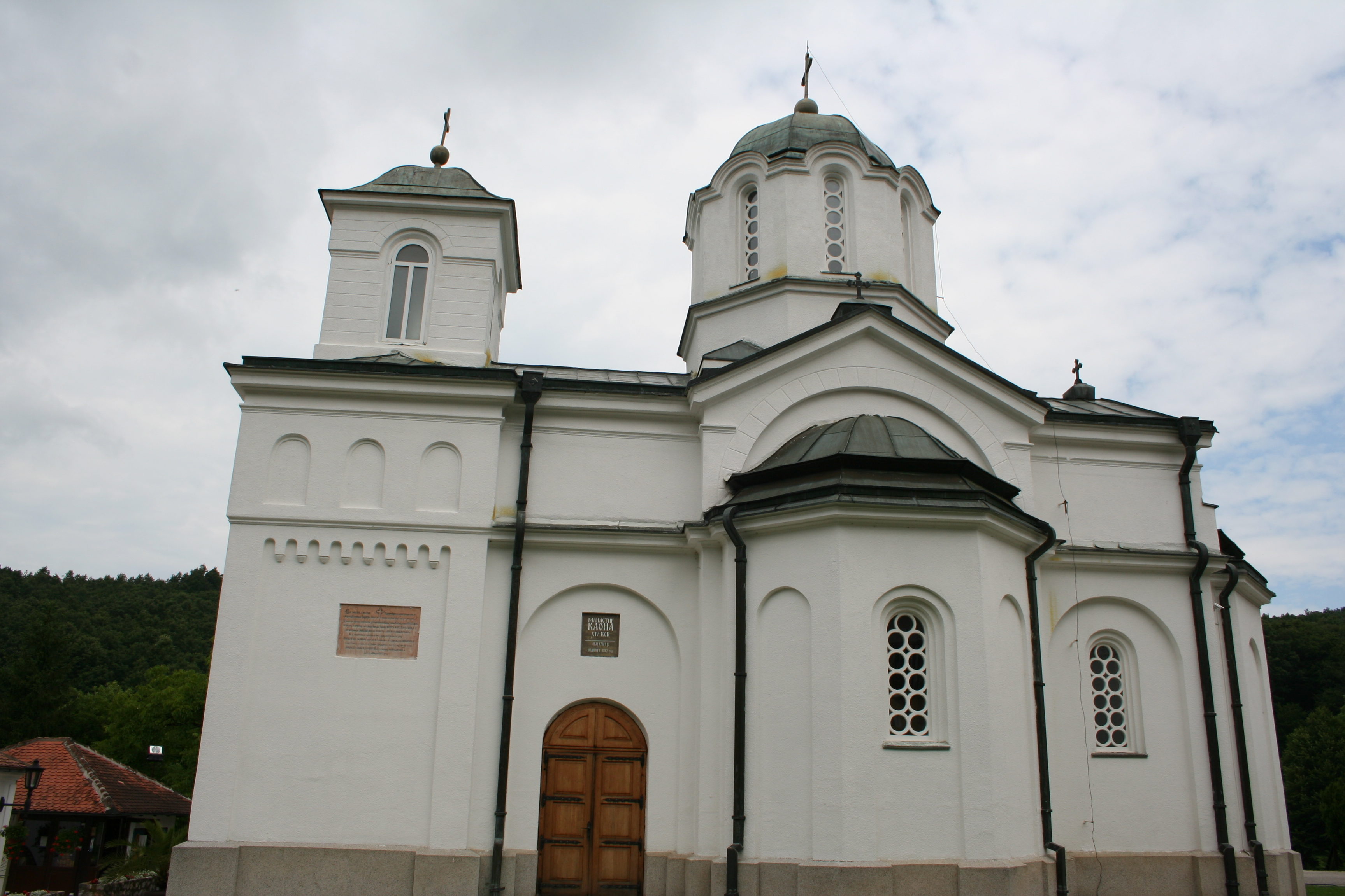 Kaona Monastery